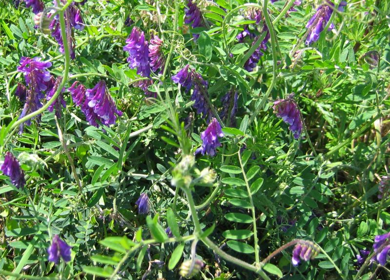 Vicia villosa, Kristian Peters 3.7.2004, Warnow-Wiesen